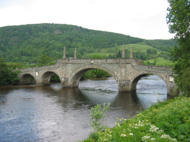 Wade's Bridge, Aberfeldy, Perthshire, Scotland.